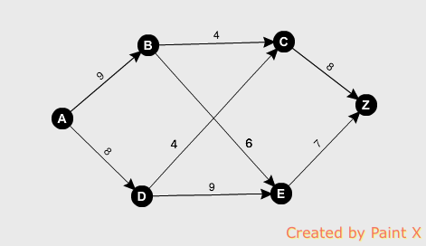 Slika 2.1